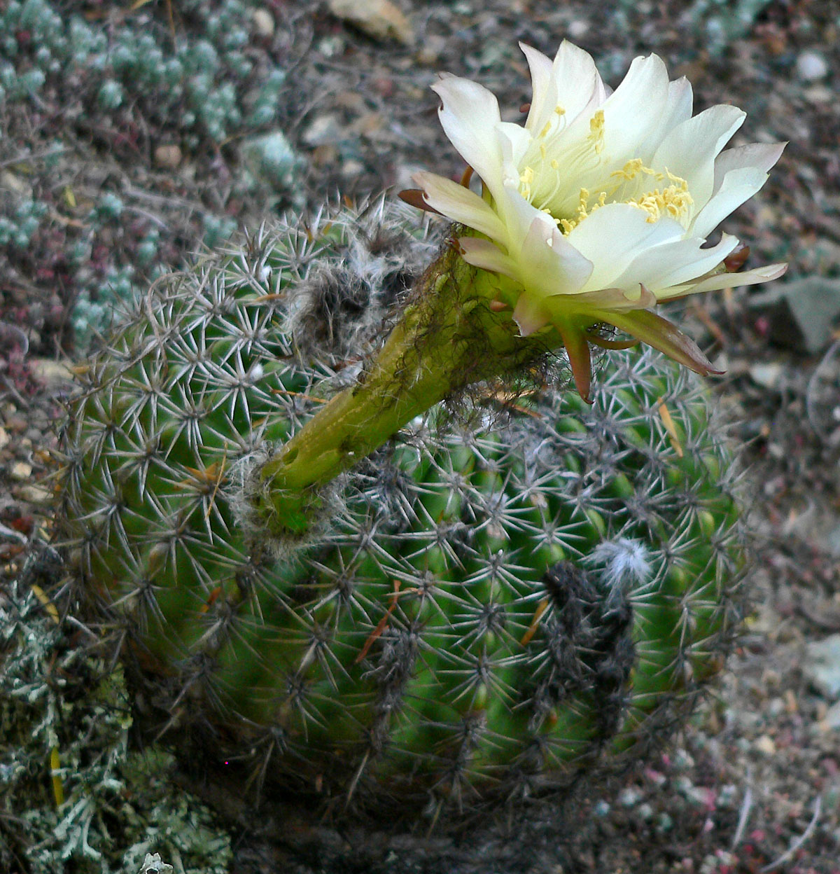 Echinopsis mamillosa at the University of California Botanical Garden, Berkeley, California